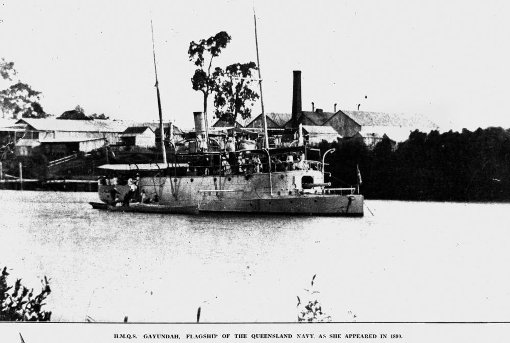 Gayundah, flagship of the Queensland Navy, as she appeared in 1890